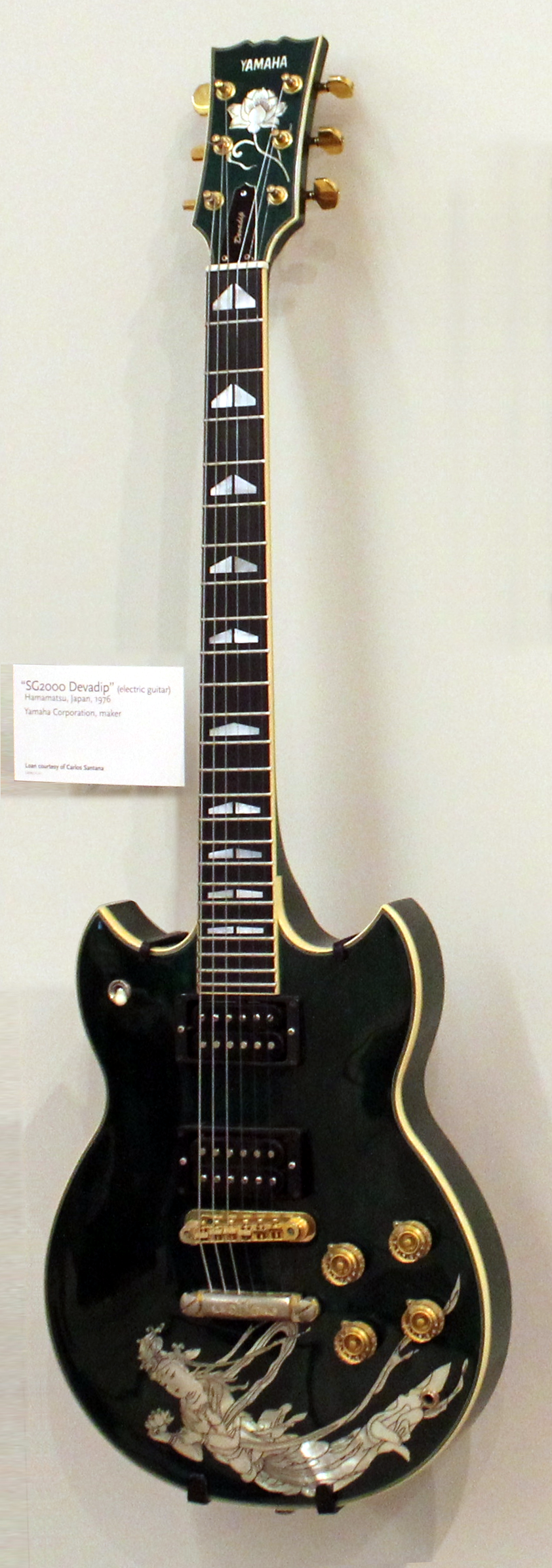 Yamaha SG2000 Devadip (1976, with inlay) Carlos Santana's own guitar, exhibited at Musical Instrument Museum (Phoenix) (MIM)